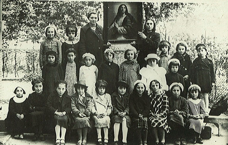 Picture of Angelina Pirini